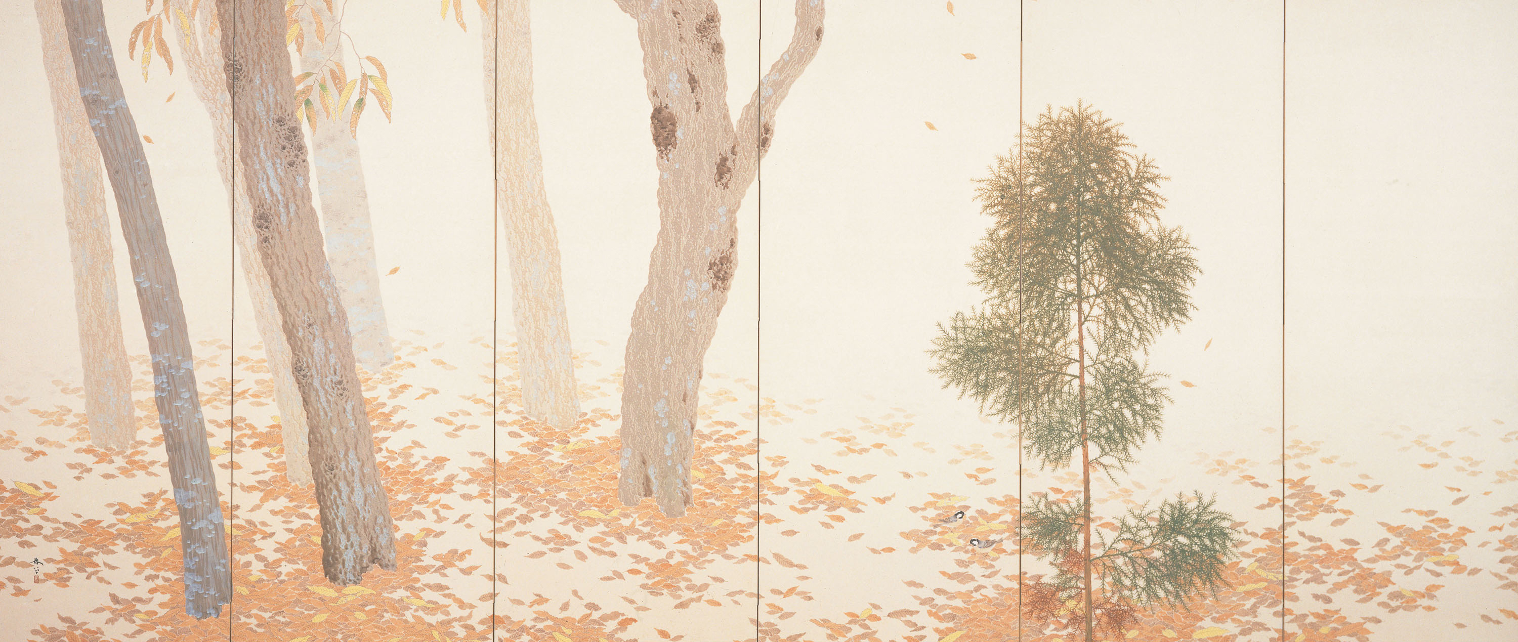 Fallen Leaves. Important Cultural Property. Location: Eisei Bunko Museum, Tokyo. Entrusted to Kumamoto Prefectural Museum of Art.